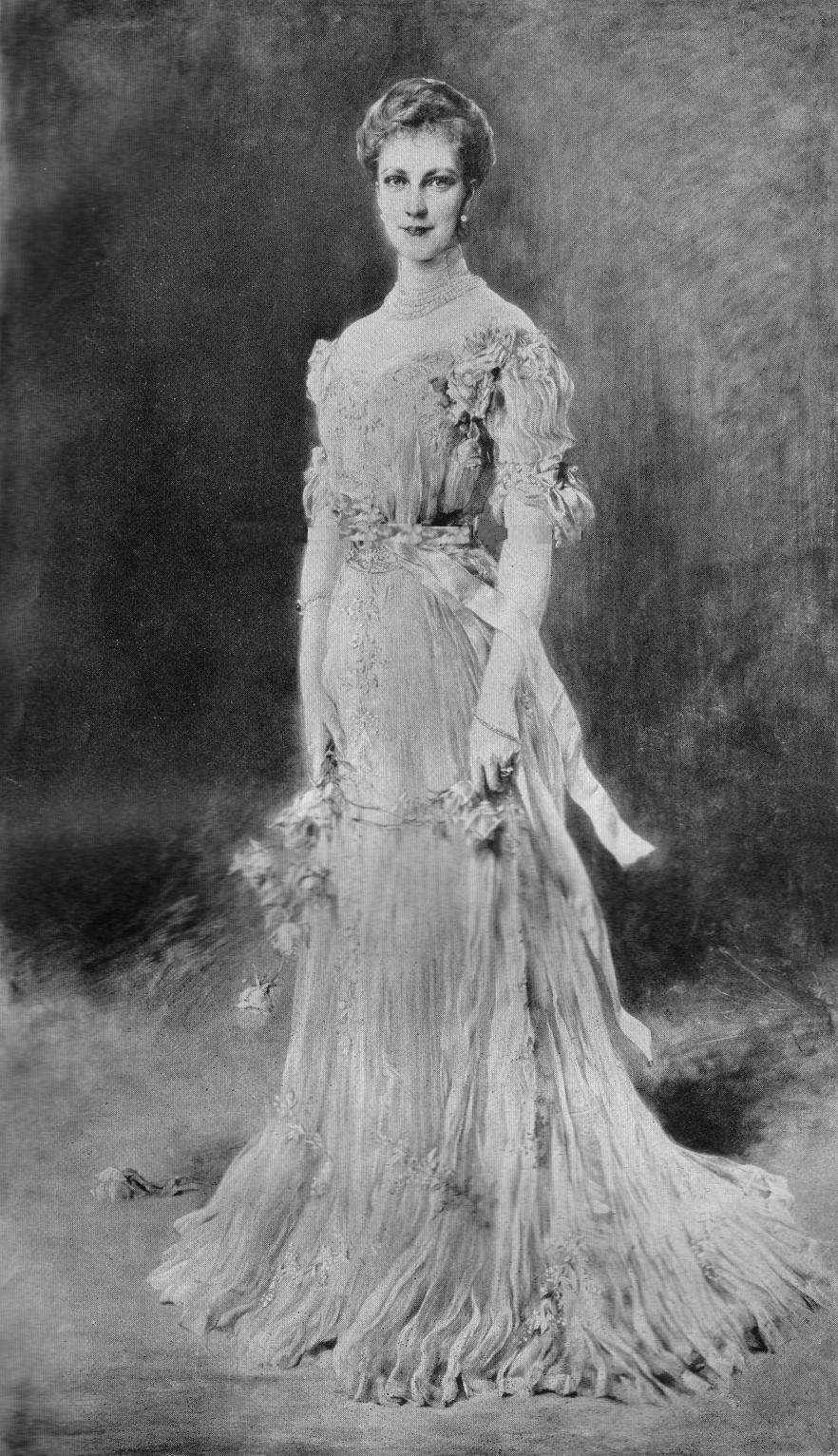 Elisabeth Marie Windisch-Graetz